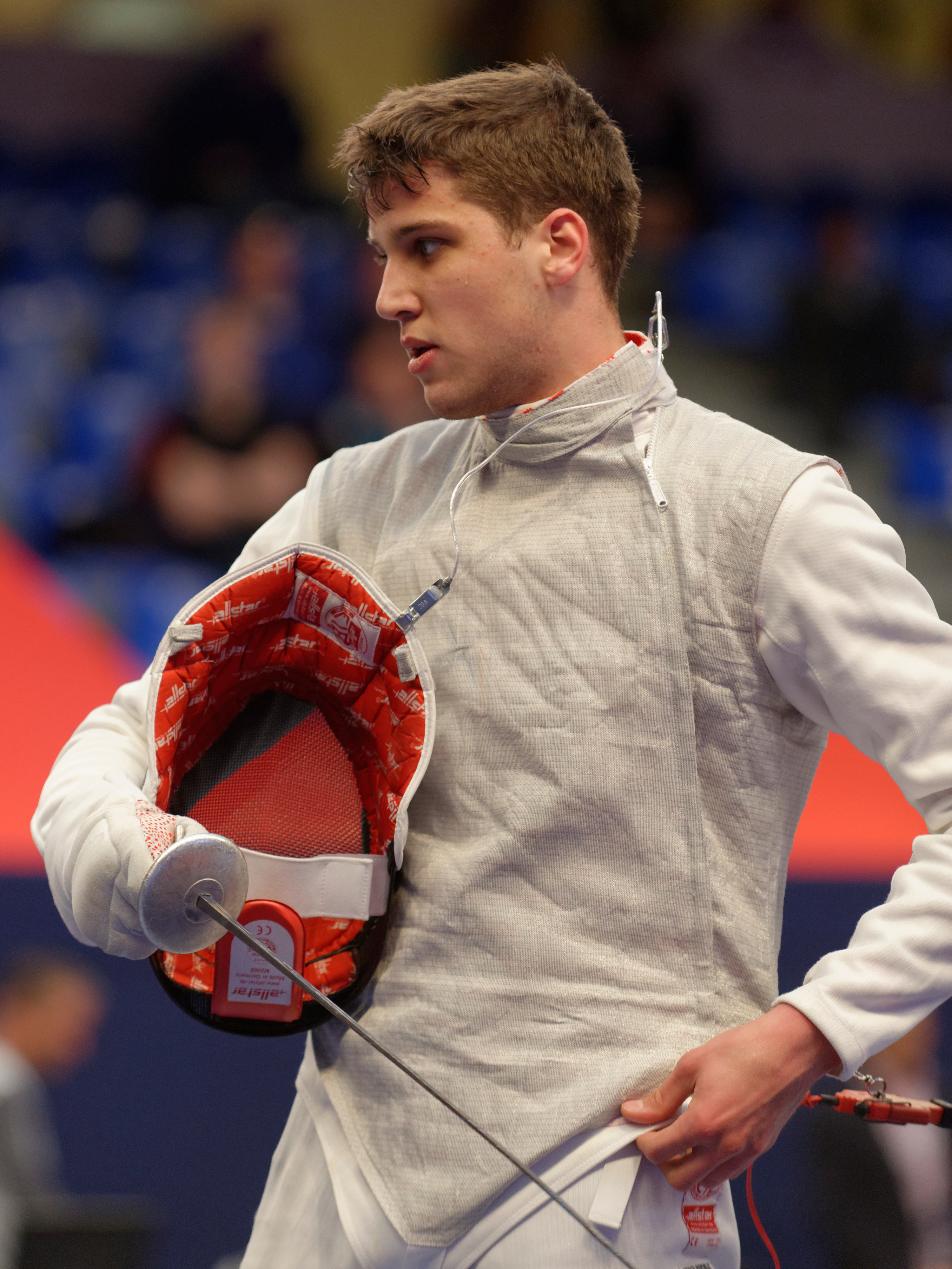 Alexander Choupenitch of the Czech Republic during his T64 bout against Italy's Francesco Trani at the Challenge International de Paris (men's foil World Cup).